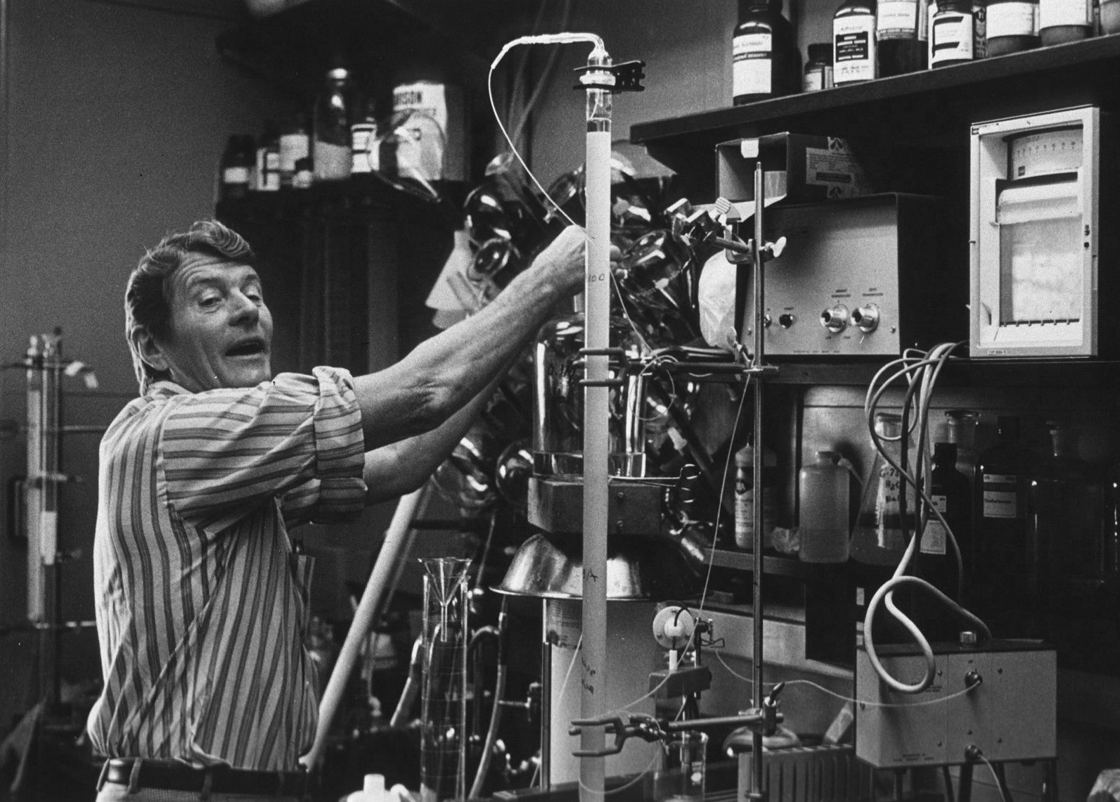 Christian Boehmer Anfinsen, Jr. (March 26, 1916 – May 14, 1995)